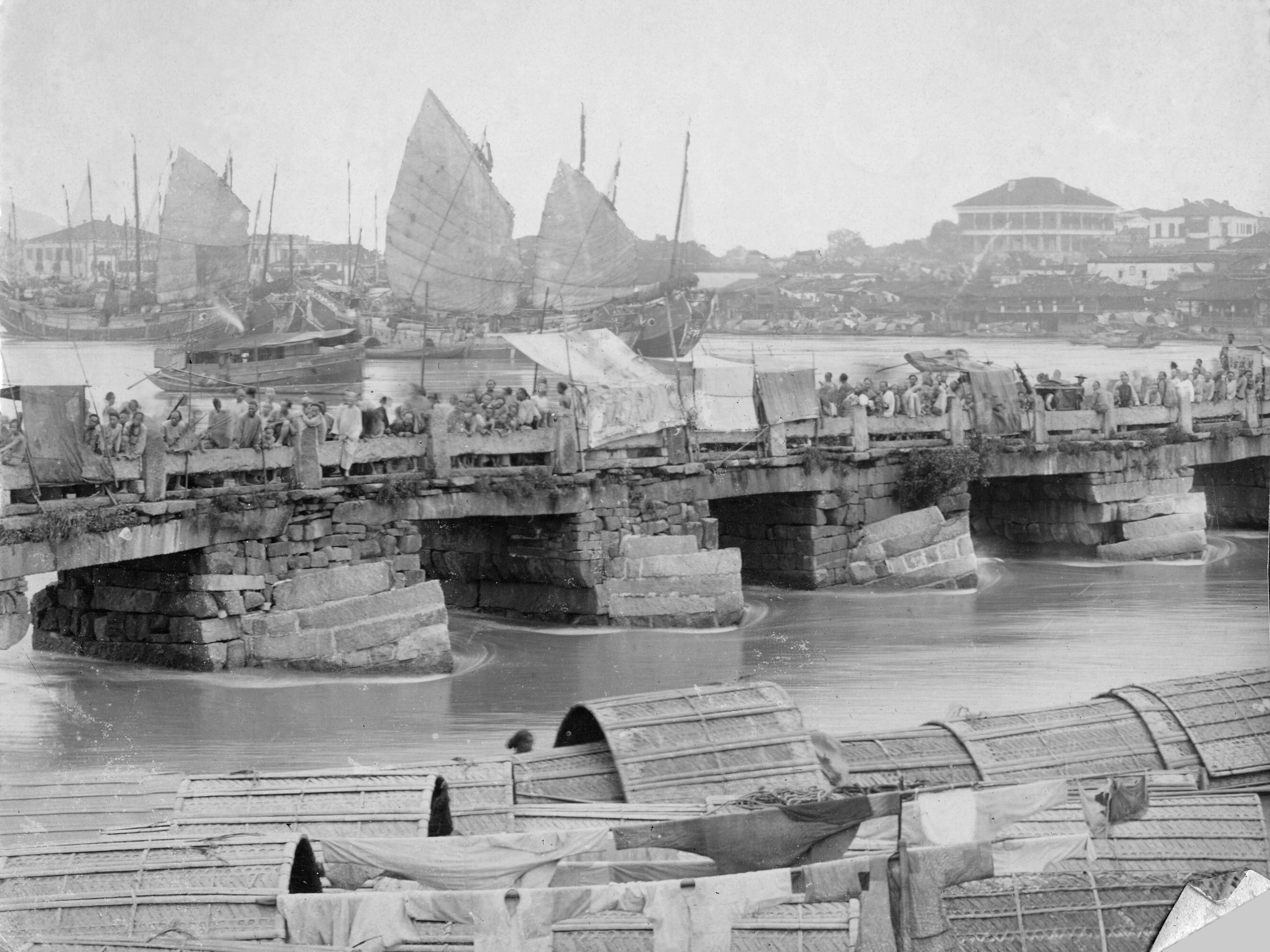 Bridge across harbor, Fujian, China, ca. 1910 A wide stone bridge is clogged with pedestrians. Portions of the bridge are covered by cloth canopies. Several large sailboats are in the background.; This photo is from the papers of the Edward Huntington Smith family, missionaries serving the American Board of Commissioners for Foreign Missions in China, 1901-1950, primarily in Ing Tai and Foochow [Fuzhou].